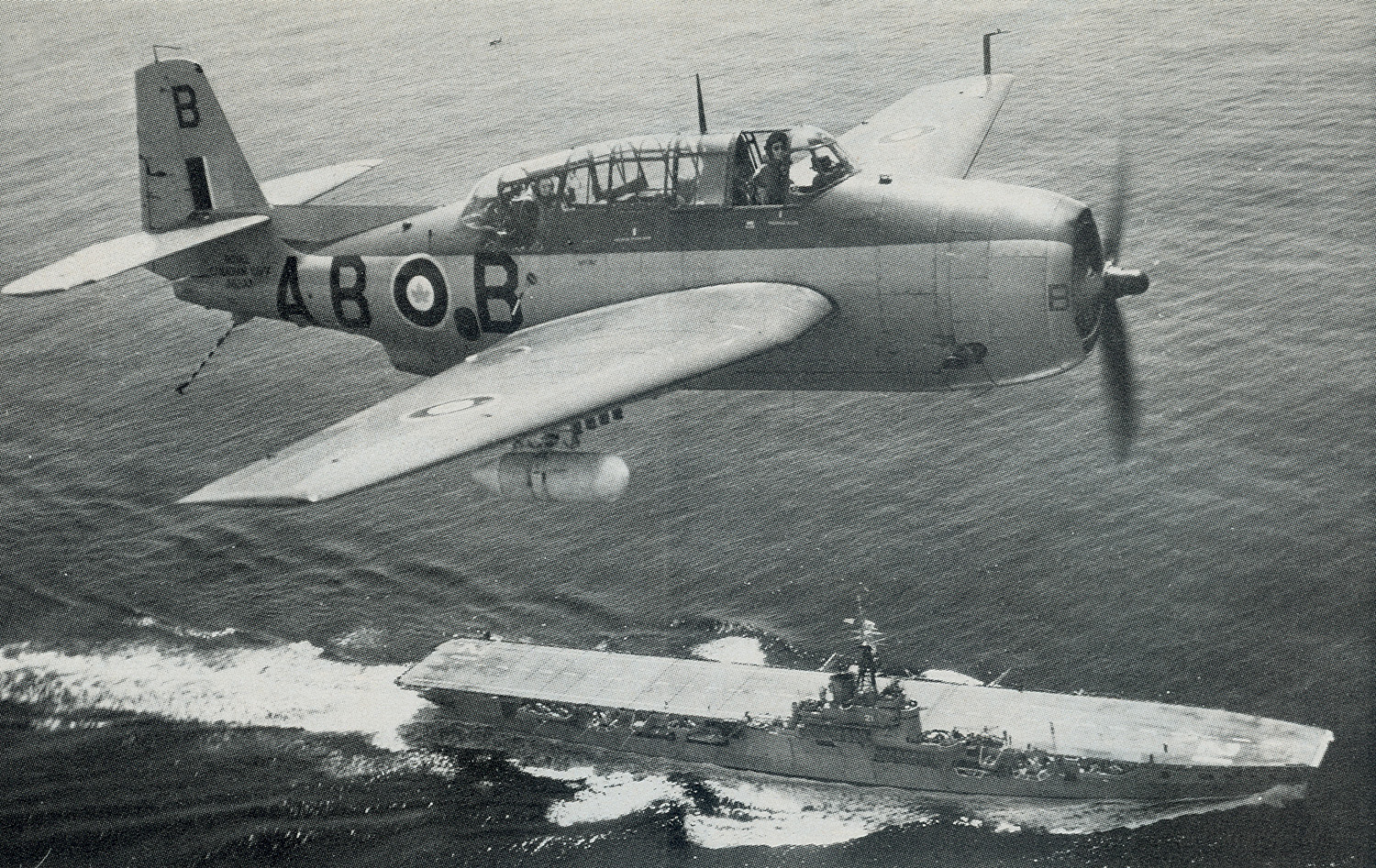 A General Motors A.S.4 Avenger drops its arresting hook and prepares to land aboard HMCS Magnificent. This one is technically still designated TBM-3E.